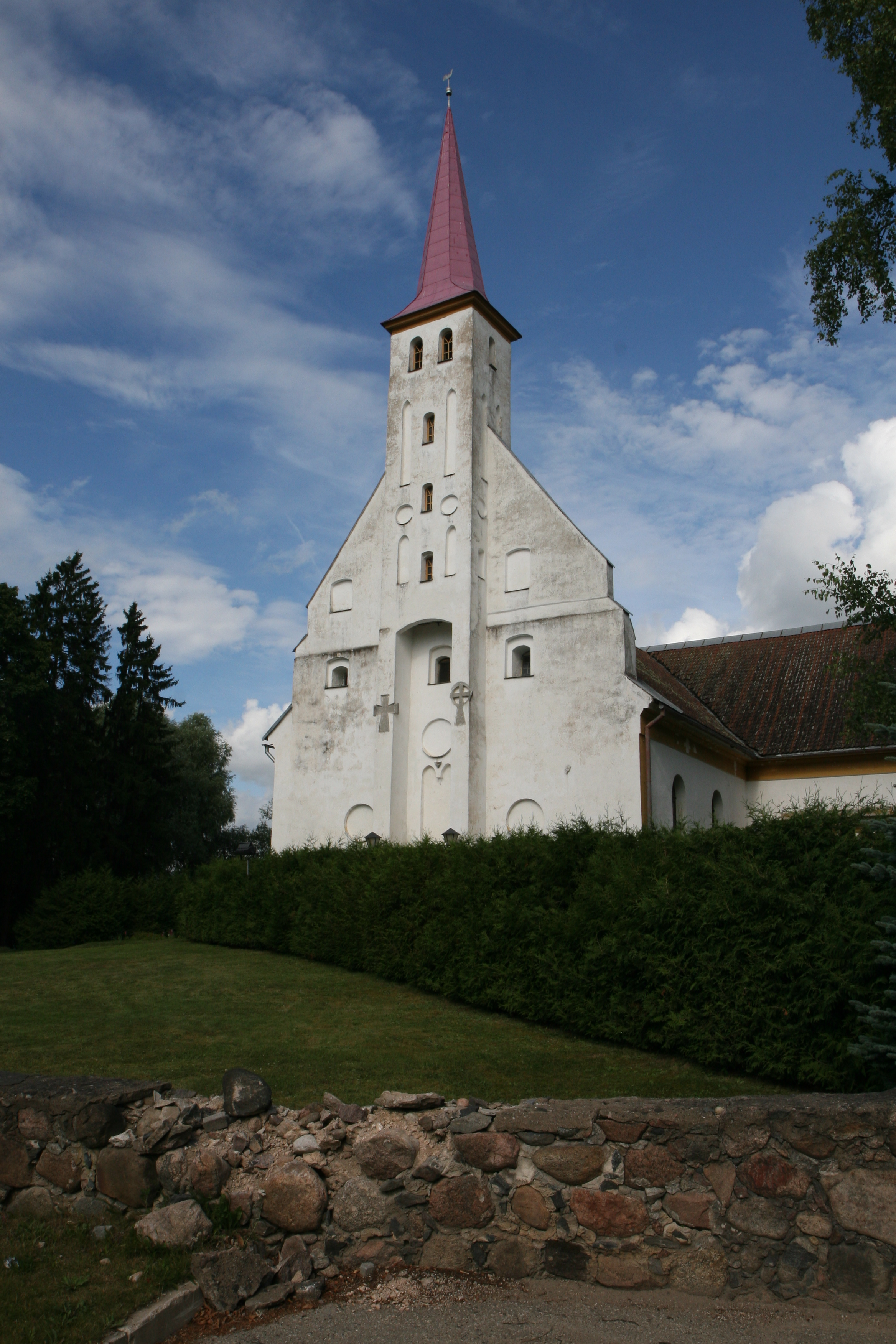 Church of Polva